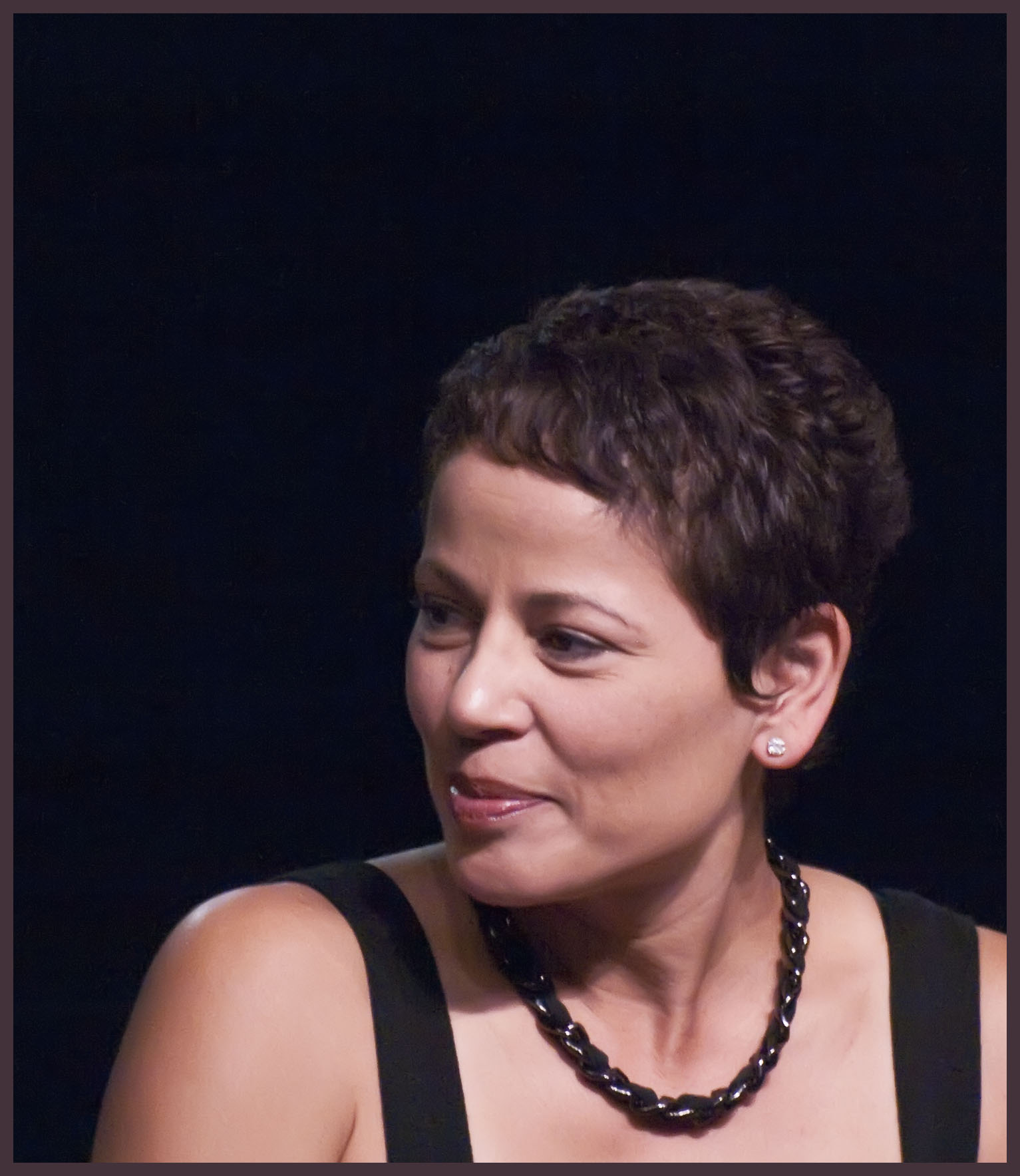 Roxann Dawson at 2009 Las Vegas Star Trek Convention.